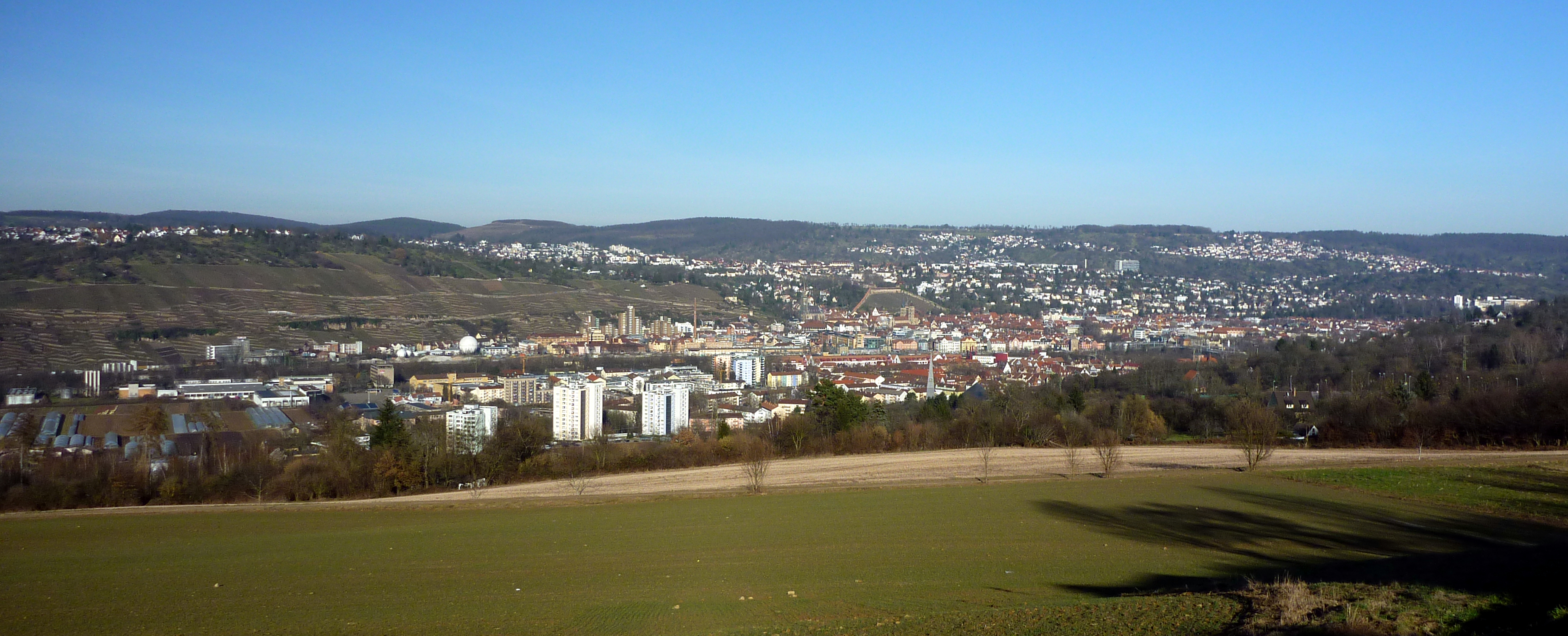 Esslingen am Neckar, South view